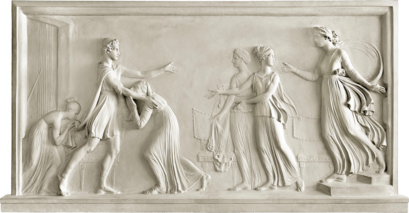 Regarding the Rezzonico bas-reliefs, see entry for Justice.